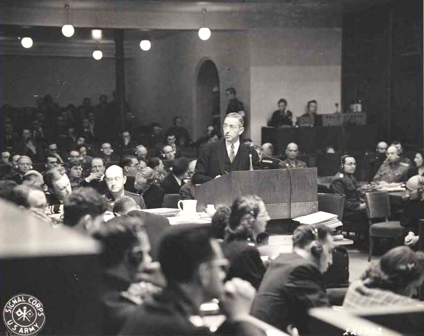 Sidney Alderman at the podium, Joseph Dainow seated to the left. Nov 27, 1945